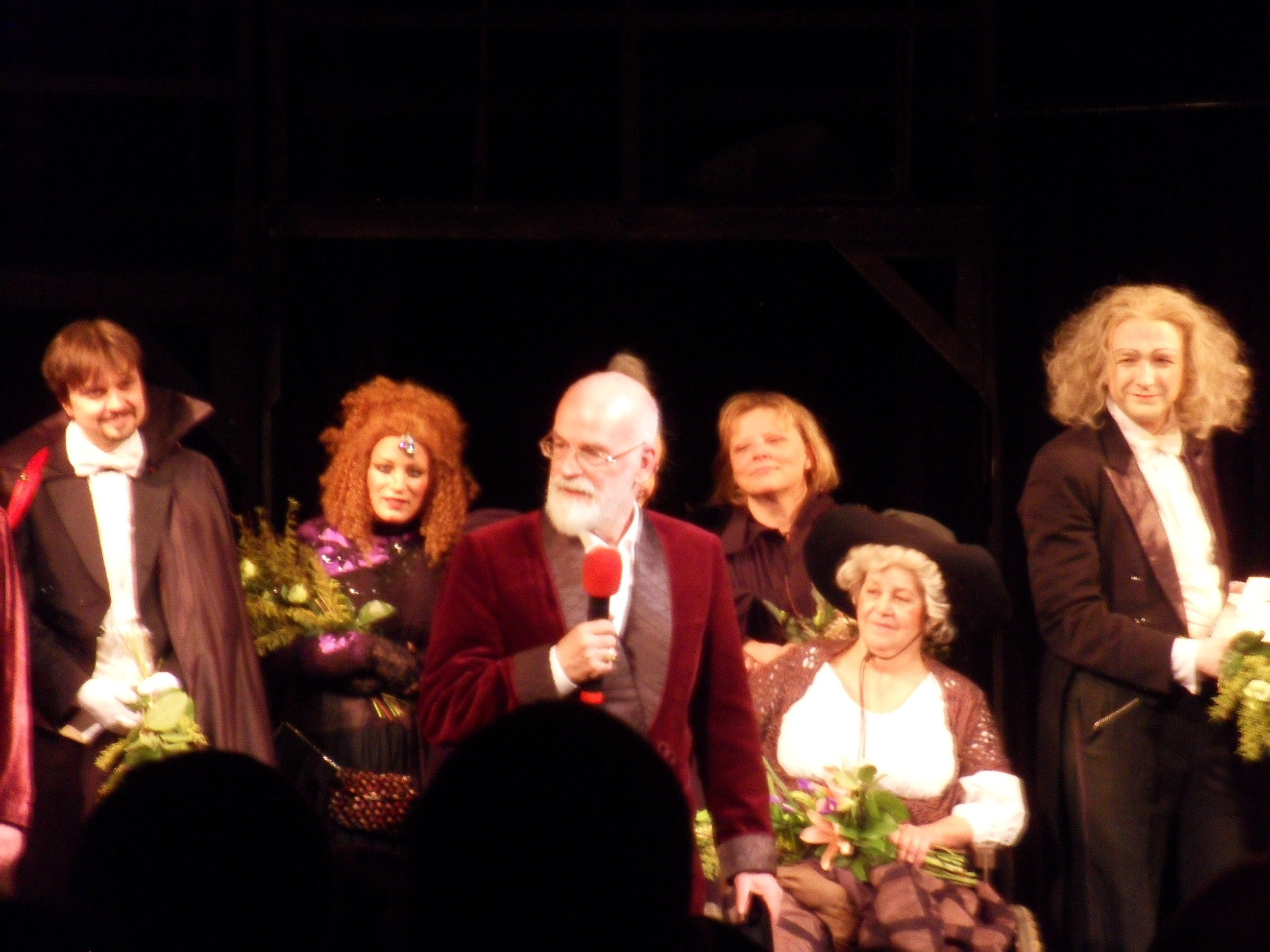 Terry Pratchett's speech after closing night of Maškaráda čili Fantom opery (english Maskerade or The Phantom of the Opera) in Divadlo v Dlouhé, Prague, Czech Republic